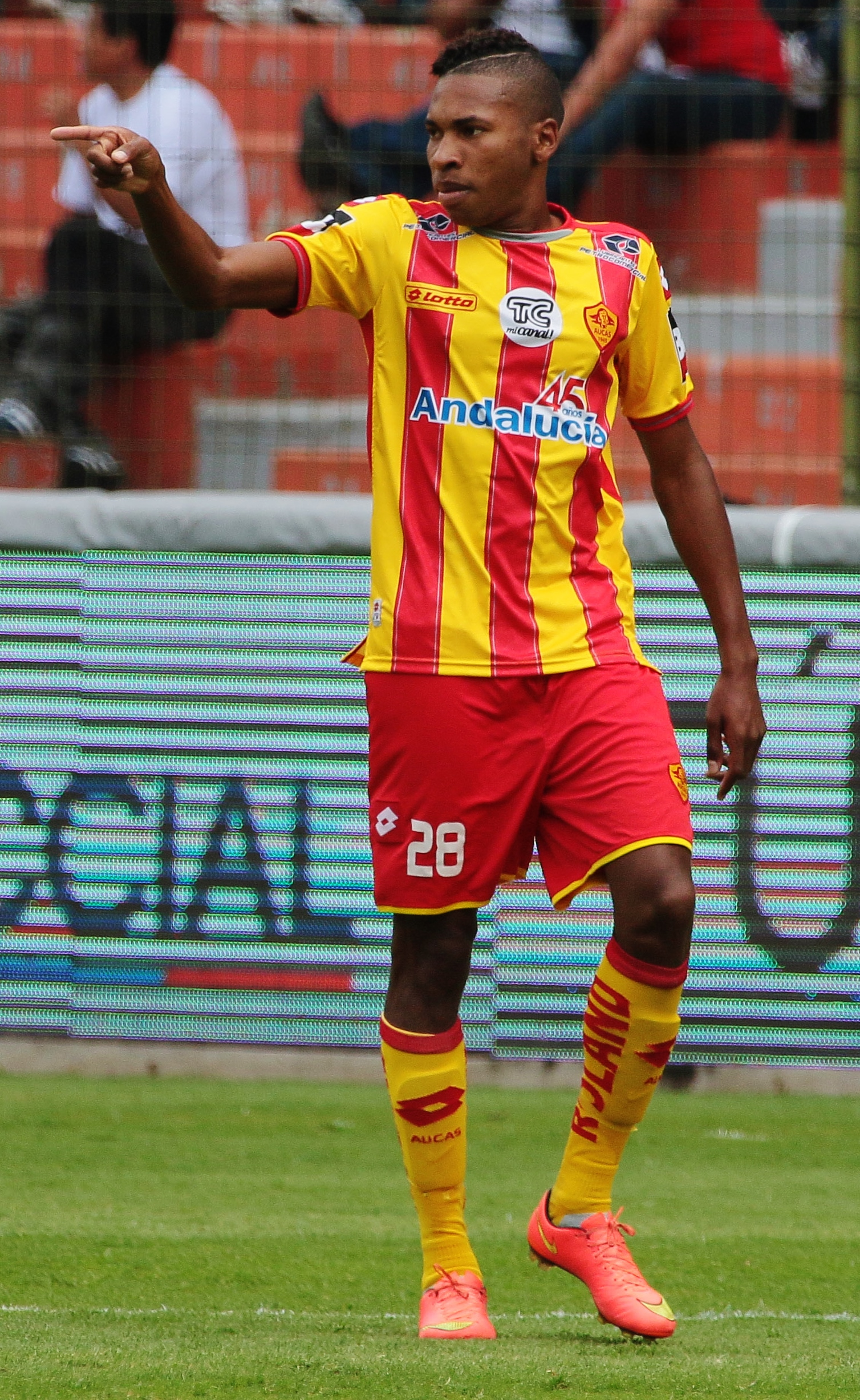 Ayrton Preciado